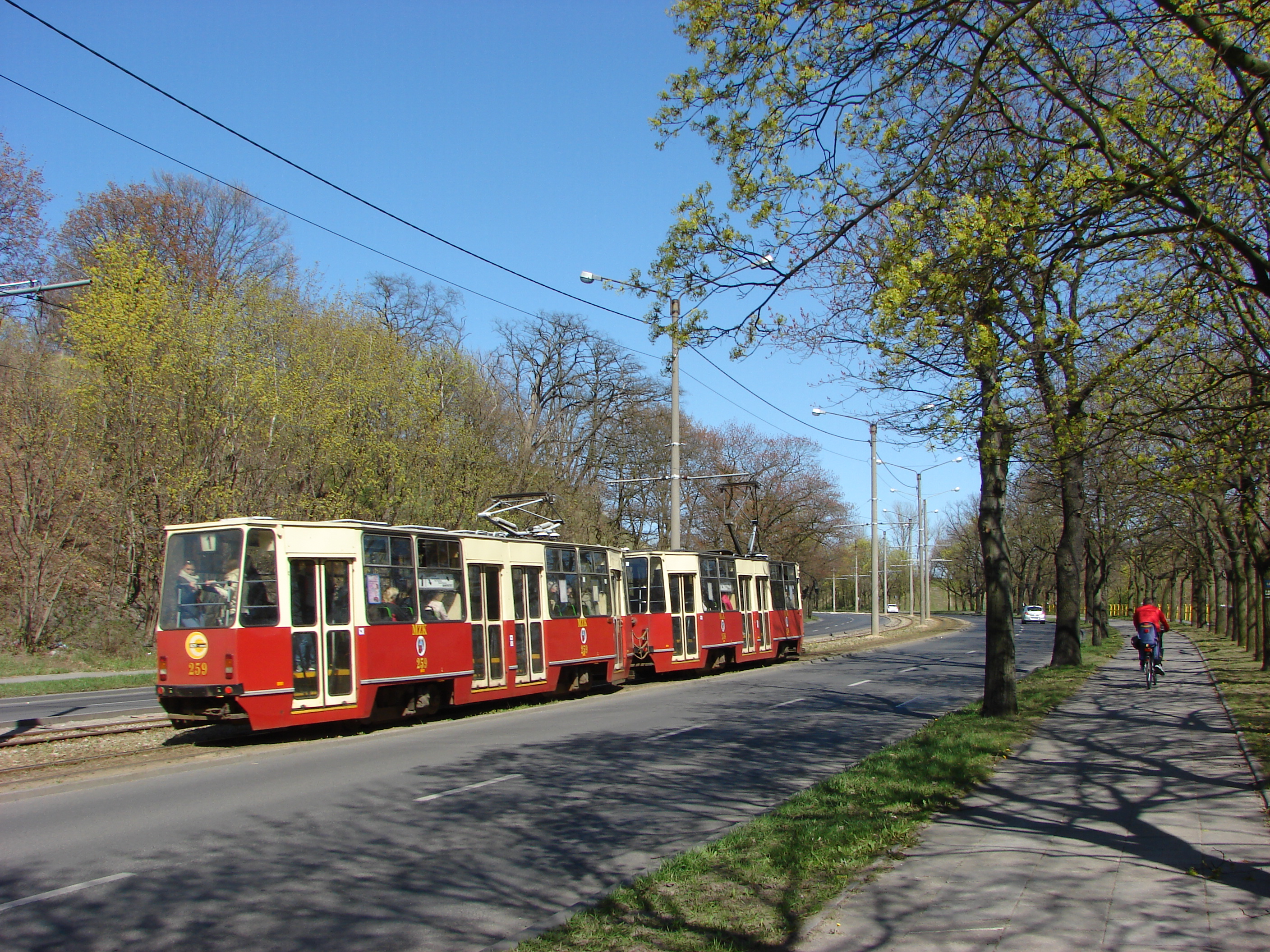 Trams in Toruń. Konstal 805Na. Apr. 2015